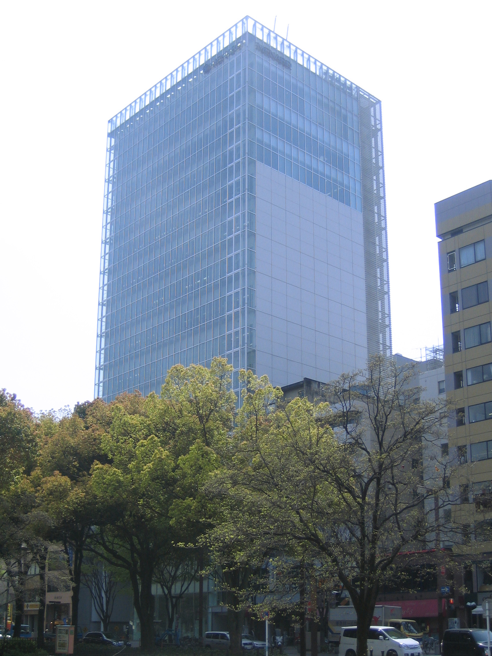 日本メナード化粧品本社。愛知県名古屋市 Nippon Menard Cosmetic Co., Ltd. (日本メナード化粧品株式会社), in Nagoya, Aichi|Nagoya, Aichi, Japan